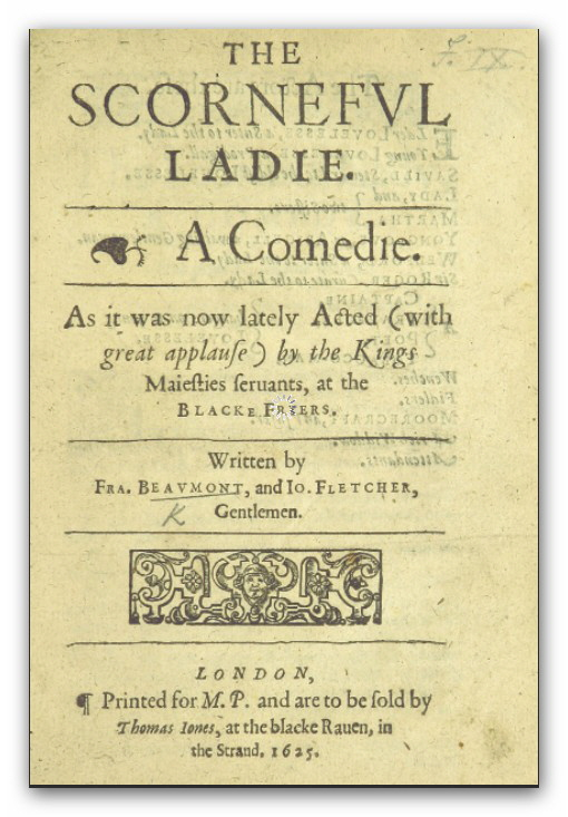 Page 7 of The Scornful Ladie ... 1616